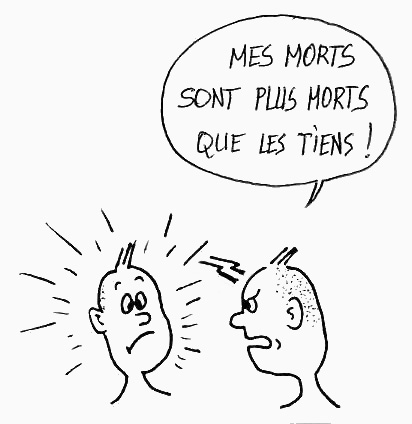 Drawing around 2005 by S.I. Cepleanu for the moldovan site "Flux" [1] as an anonymous caricature about the "concurrence" of mass-crimes commemorations, here translated in french : "my victims are more died than yours".